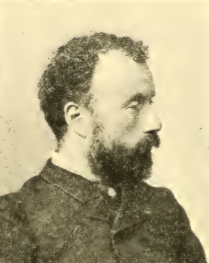 Photo portrait of H. Berteaux, printed in a book.